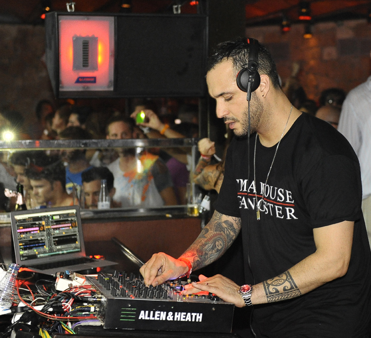 30.07.12 - Cocoon. More pics at